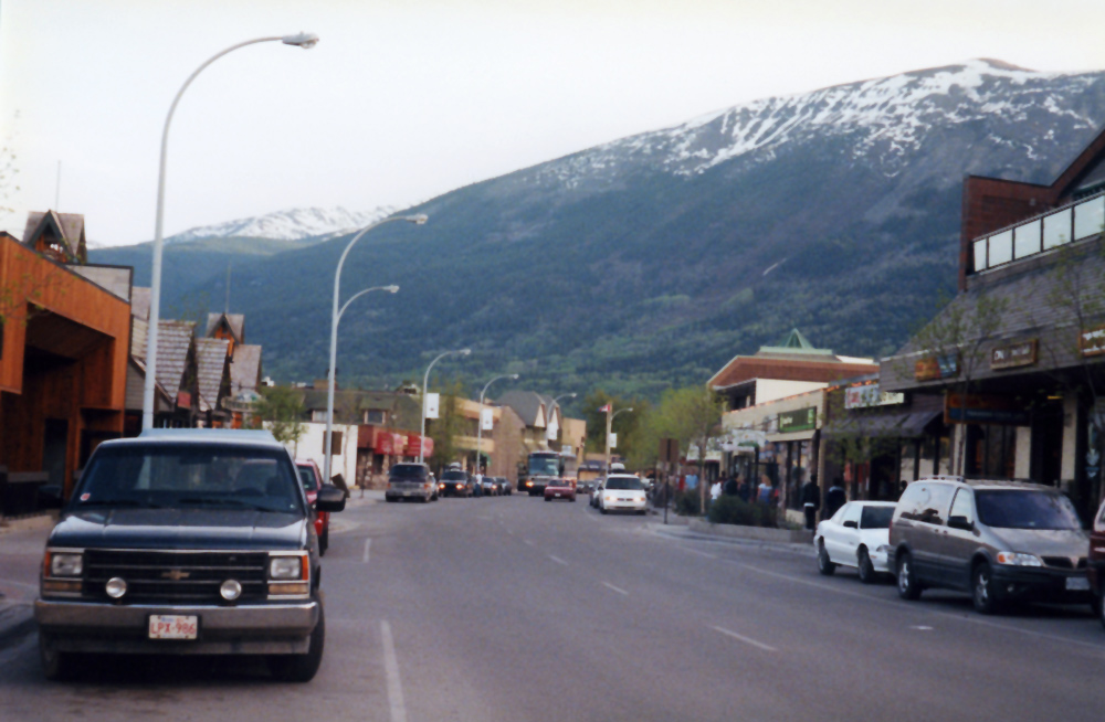 Jasper townsite - Jasper National Park, Alberta